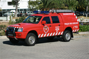 AHBVPA-VETA 01